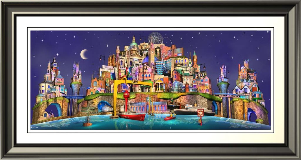 "Norn Island" by Keith Drury (new style: 'When I Dream Collection')